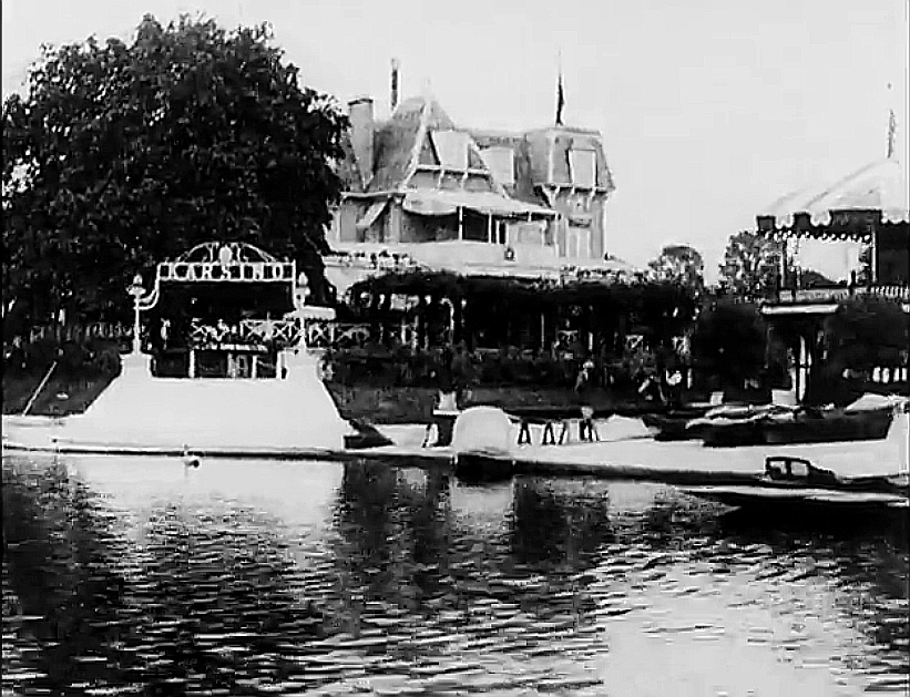 Photograph from 1924 from family collection